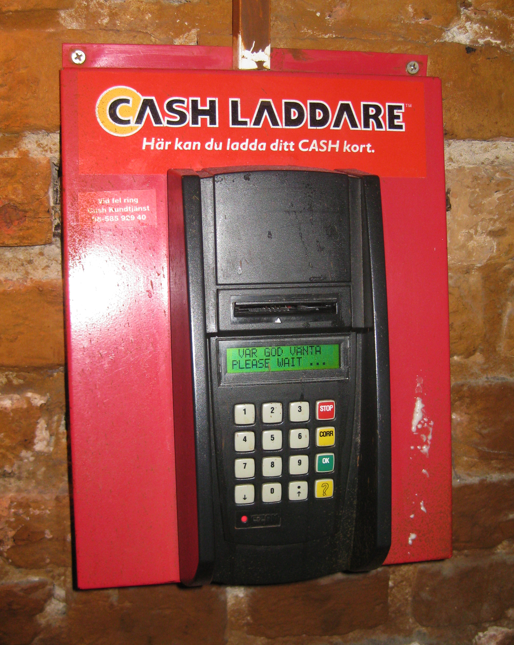 Device for transfering money from a bank account to a "Cash card". The cash-card started 1997 in Sweden, but is no longer in use.